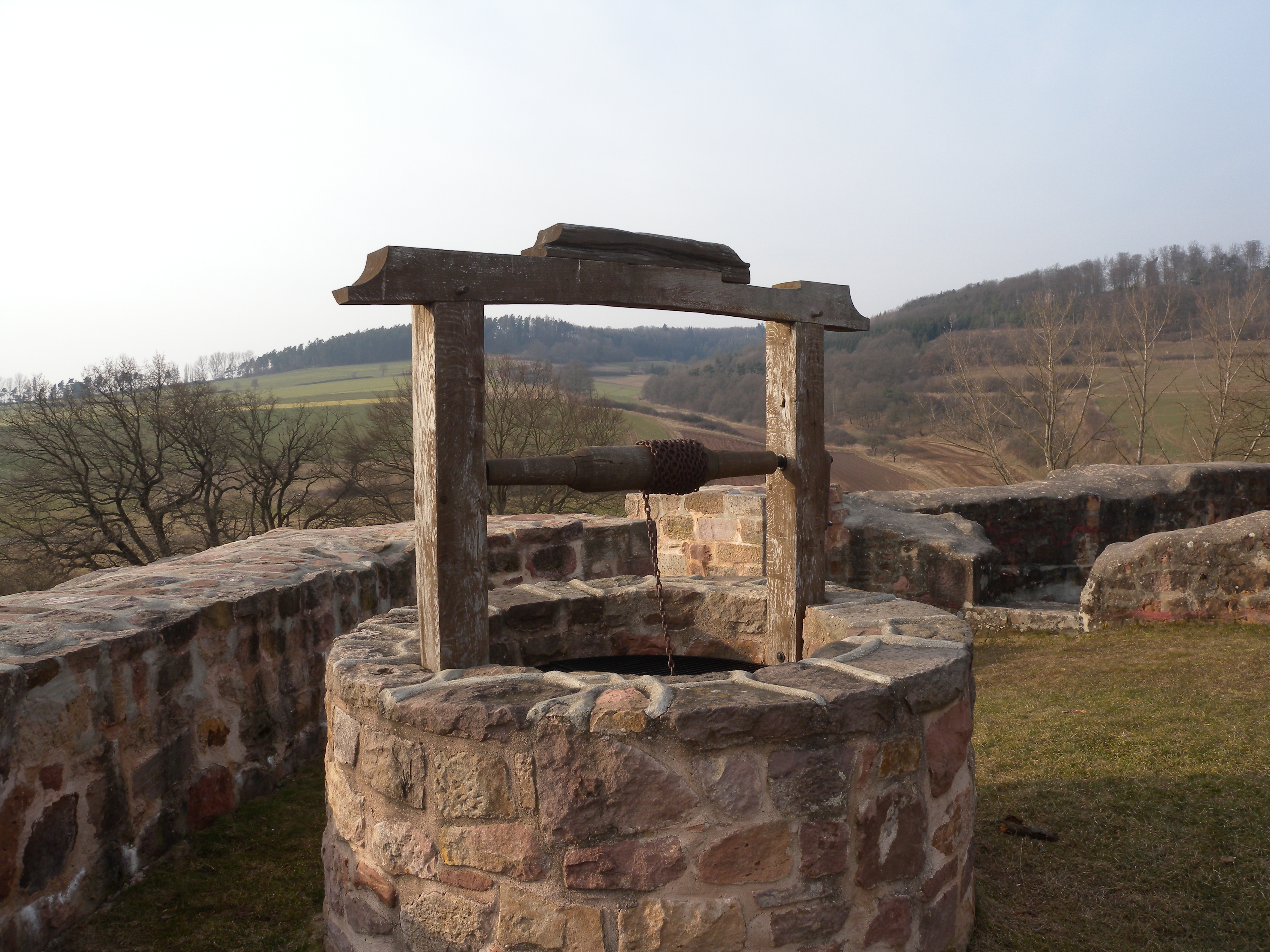 The well of the castle Wartenberg near Angersbach, Hesse in Germany.